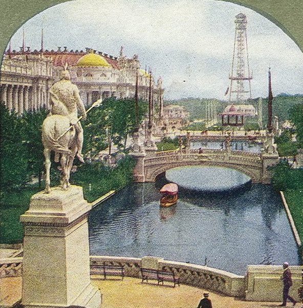 stereocard (single panel only), original caption: "EAST LAGOON, PALACES OF EDUCATION AND MANUFACTURE. This vista along the East Lagoon toward the Tower of Wireless Telegraphy was much admired. At the extreme left is seen the Palace of Education, joined in the middleground by the Palace of Manufacture. The steel tower of the wireless telegraphy station was located near the Press Building and was connected with antoher station near the American Reservation. Messages were sent from the fair grounds to many distant cities during the Exposition. The tower shown in the picture was 300 feet high. An elevator carried visitors to the top, where a magnificent view of the exposition grounds and their surroundings awarded one for the trouble of riding up. The central exhibit of the De Forrest Wireless Telegraph Company, who operated the apparatus, was in the Palace of Electricity, where wondering throngs always surrounded the operators."